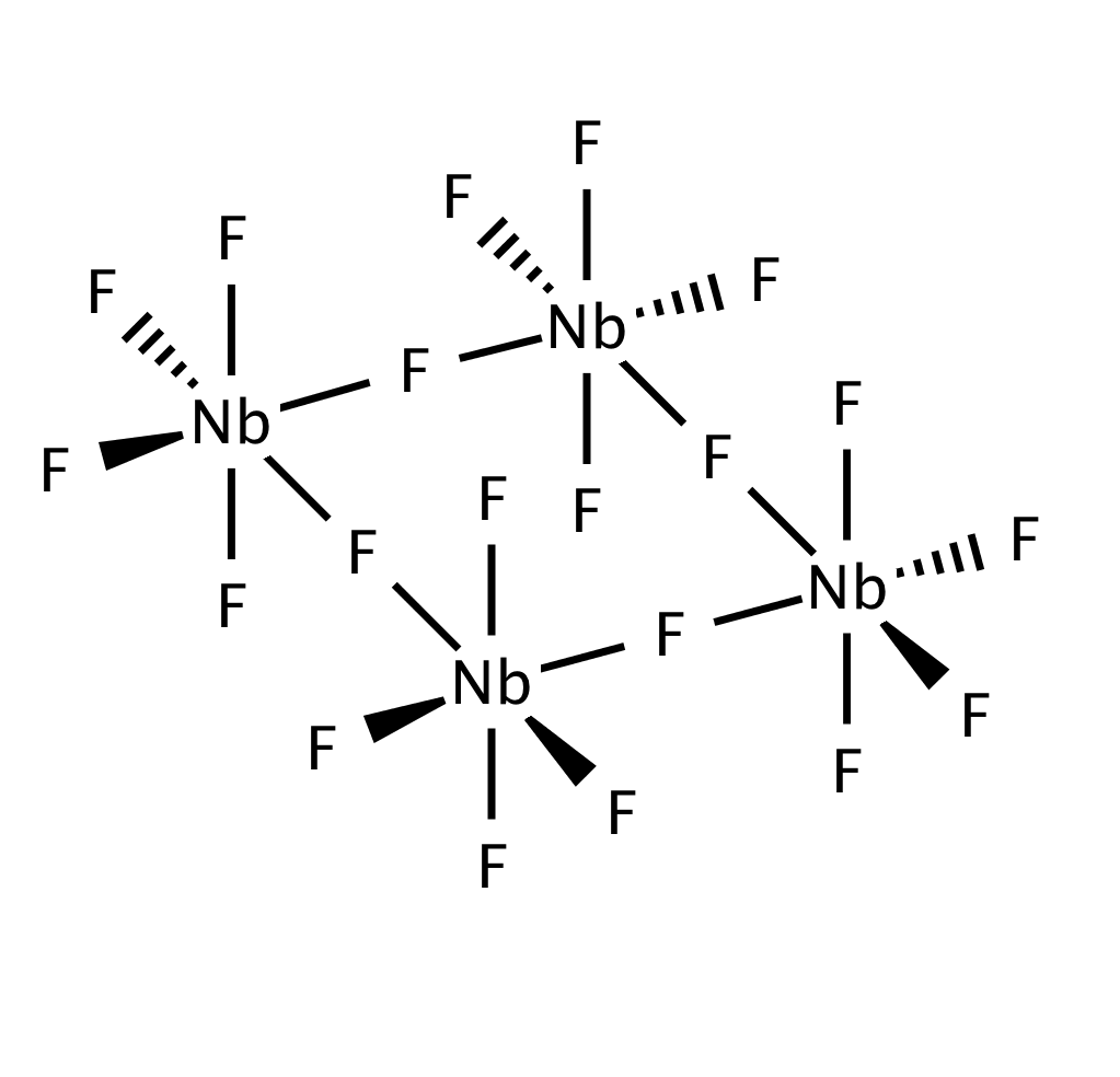 Schematic structure of solid niobium(V) fluoride